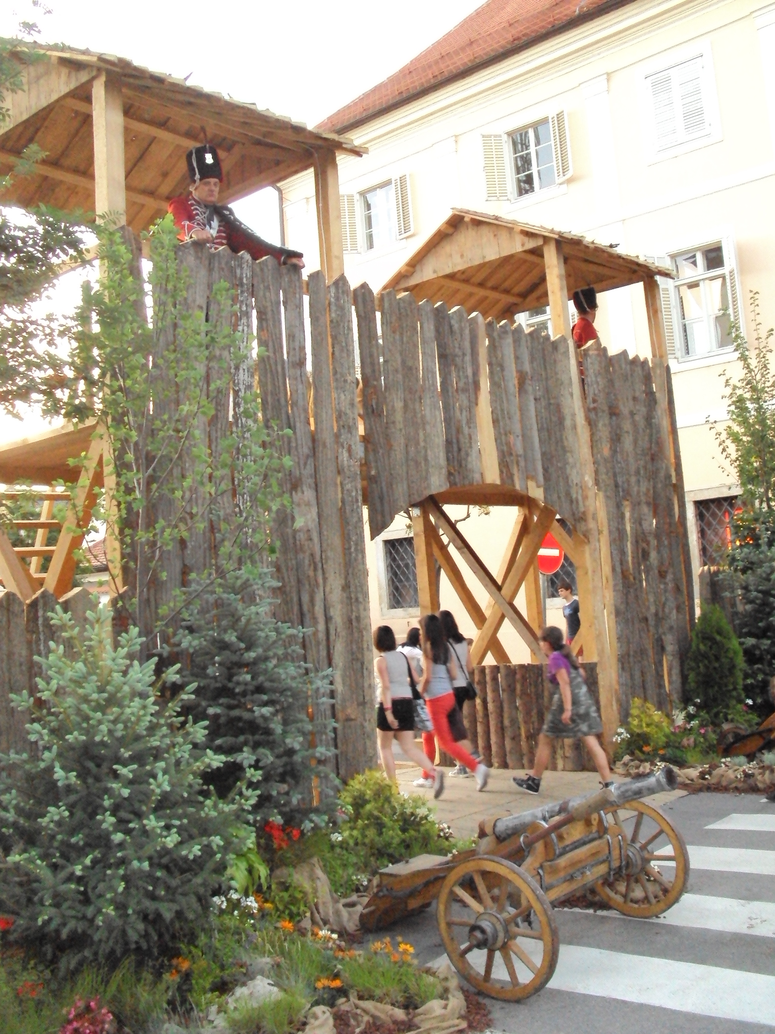 Street festival Terezijana in Bjelovar, Croatia